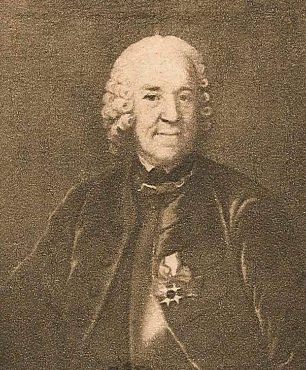 Swedish nobleman, officer, member of parliament and landowner.